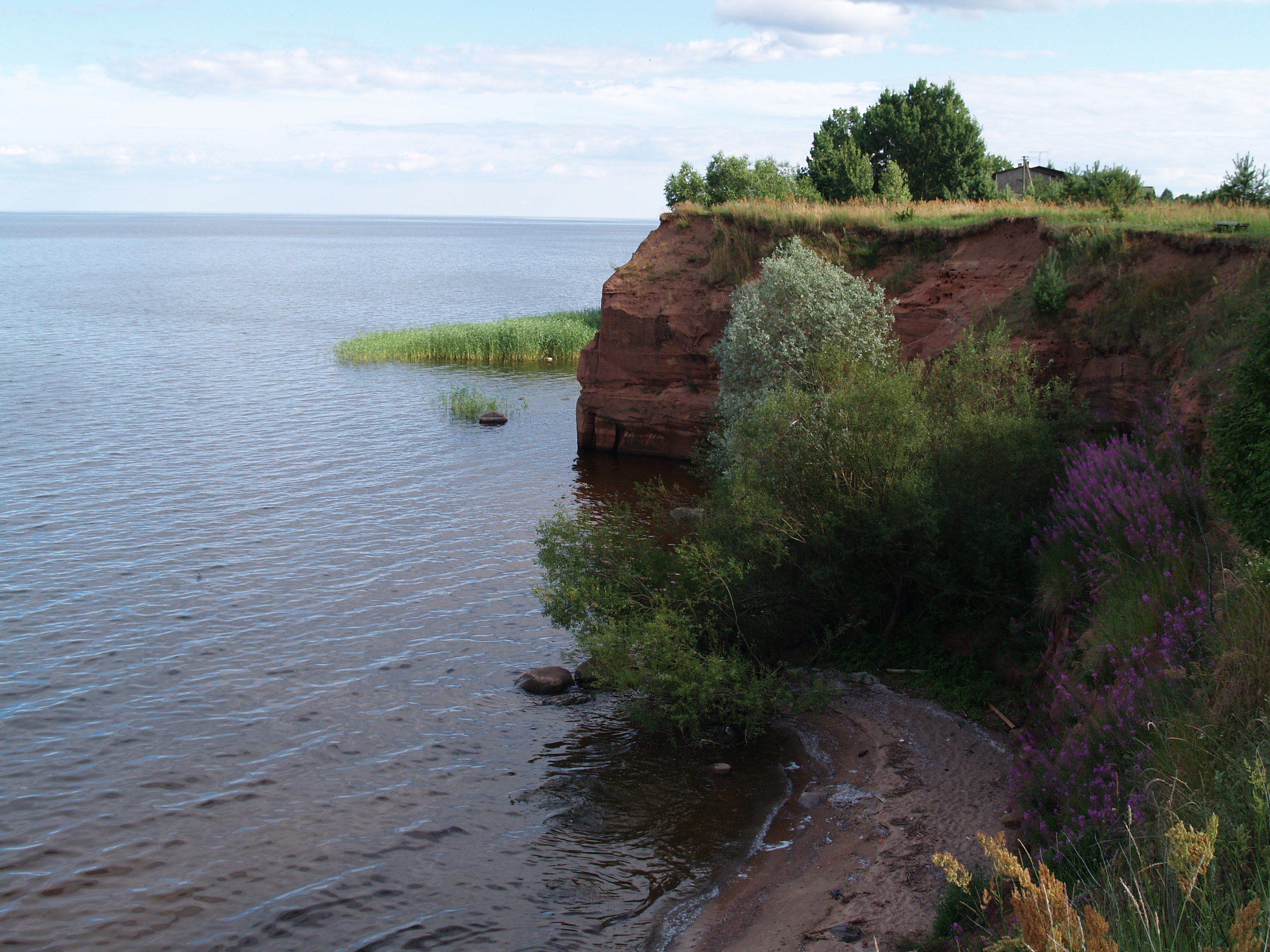 Kallaste sandstone outcrop in Estonia.